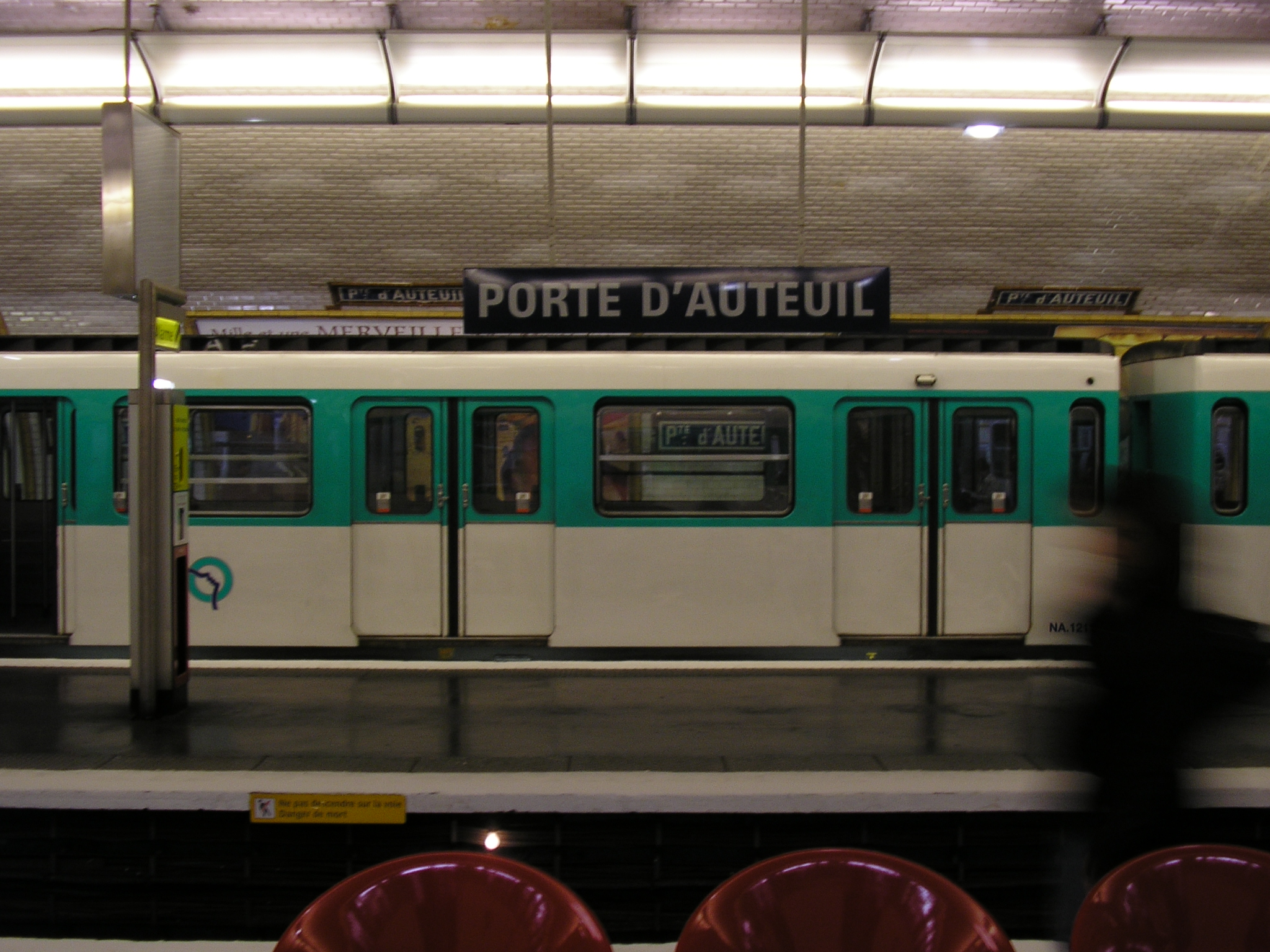 Front view of the Porte d'Auteuil Paris métro